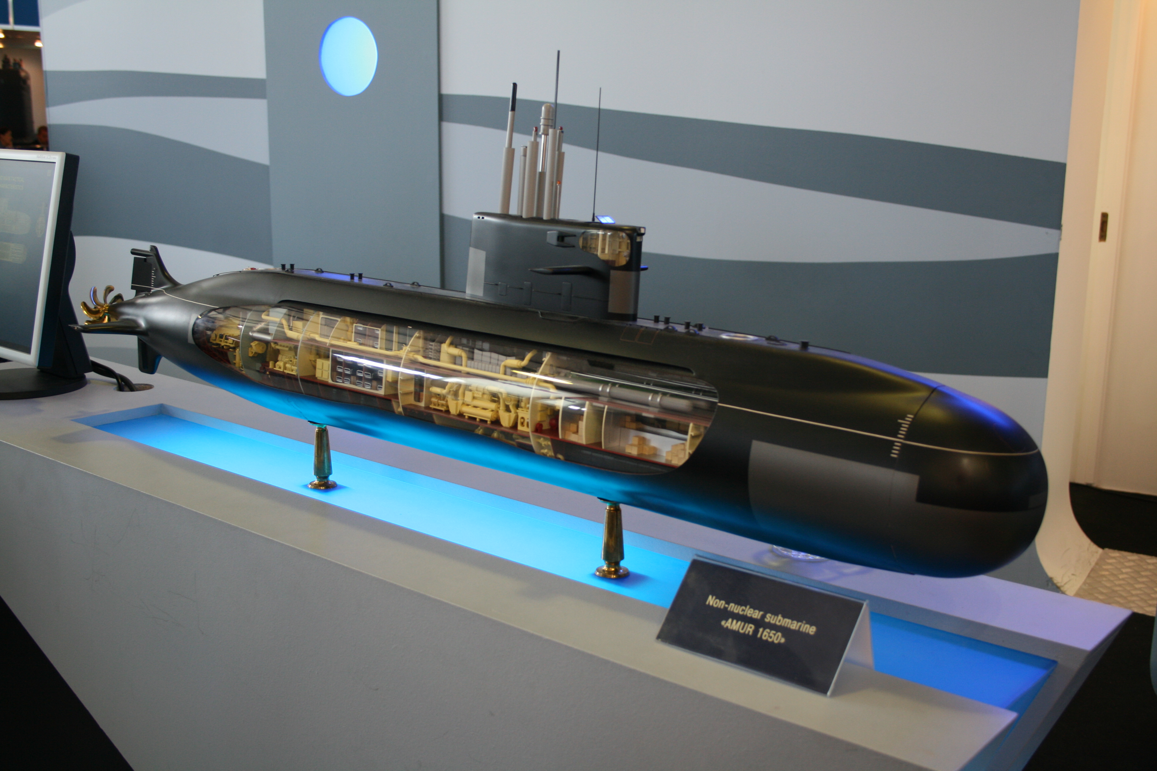 «Amur-1650» submarine model, shown on IMDS-2007